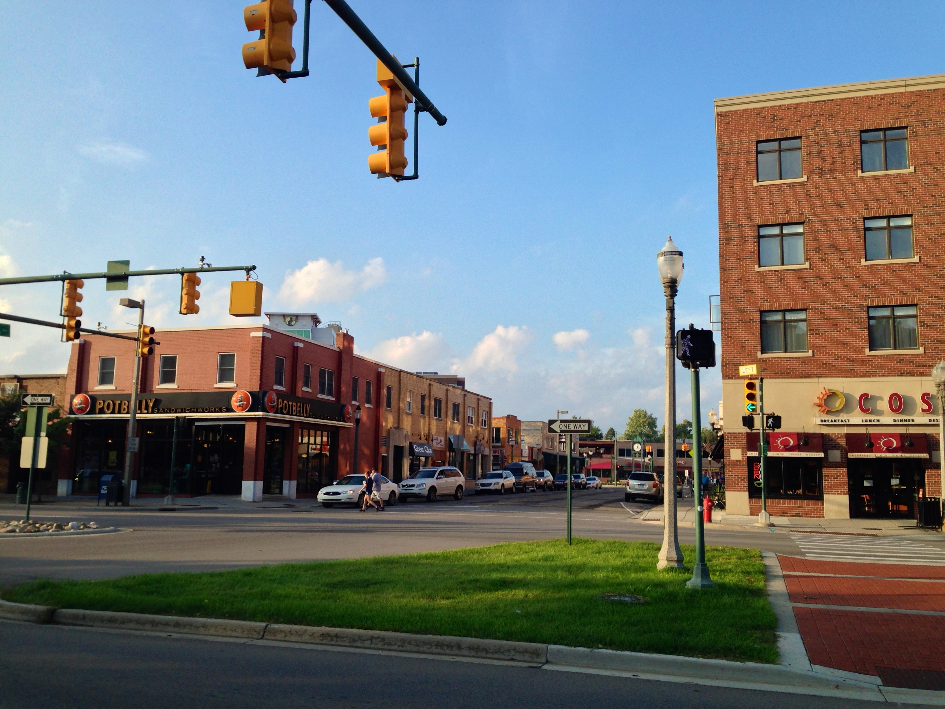 A photo of Grand River Avenue, Downtown East Lansing